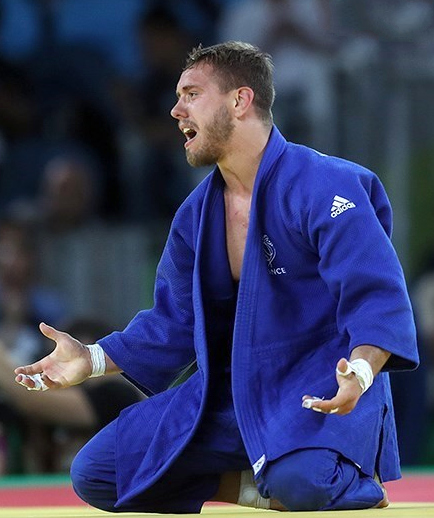 2016 Summer Olympics Judo, August 9